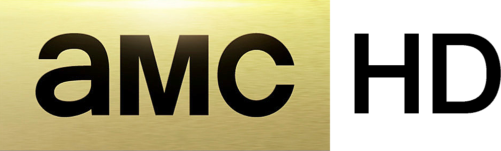 Offical Logo of AMC HD - since 2013